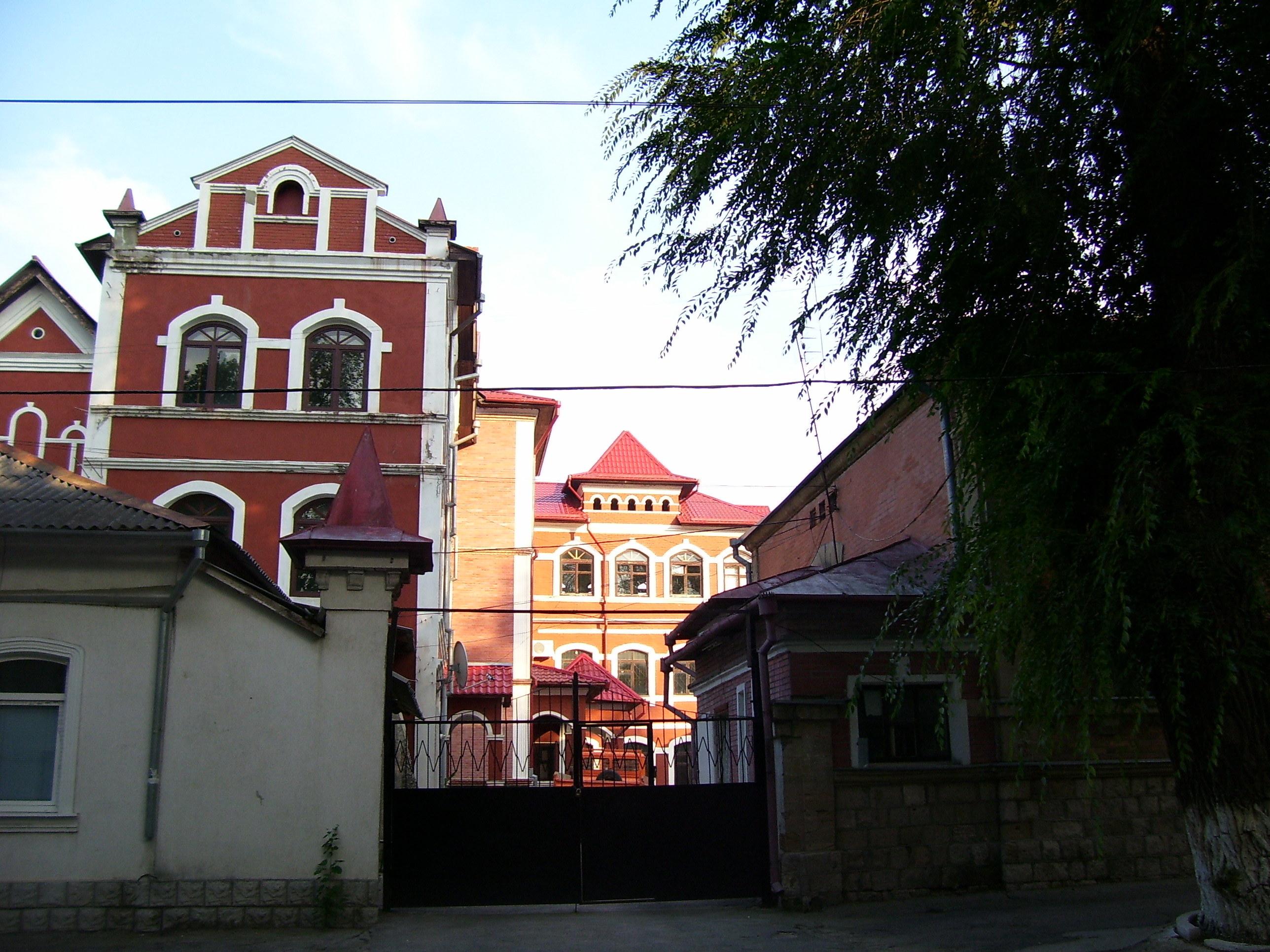 Prometeu-Prim Lyceum